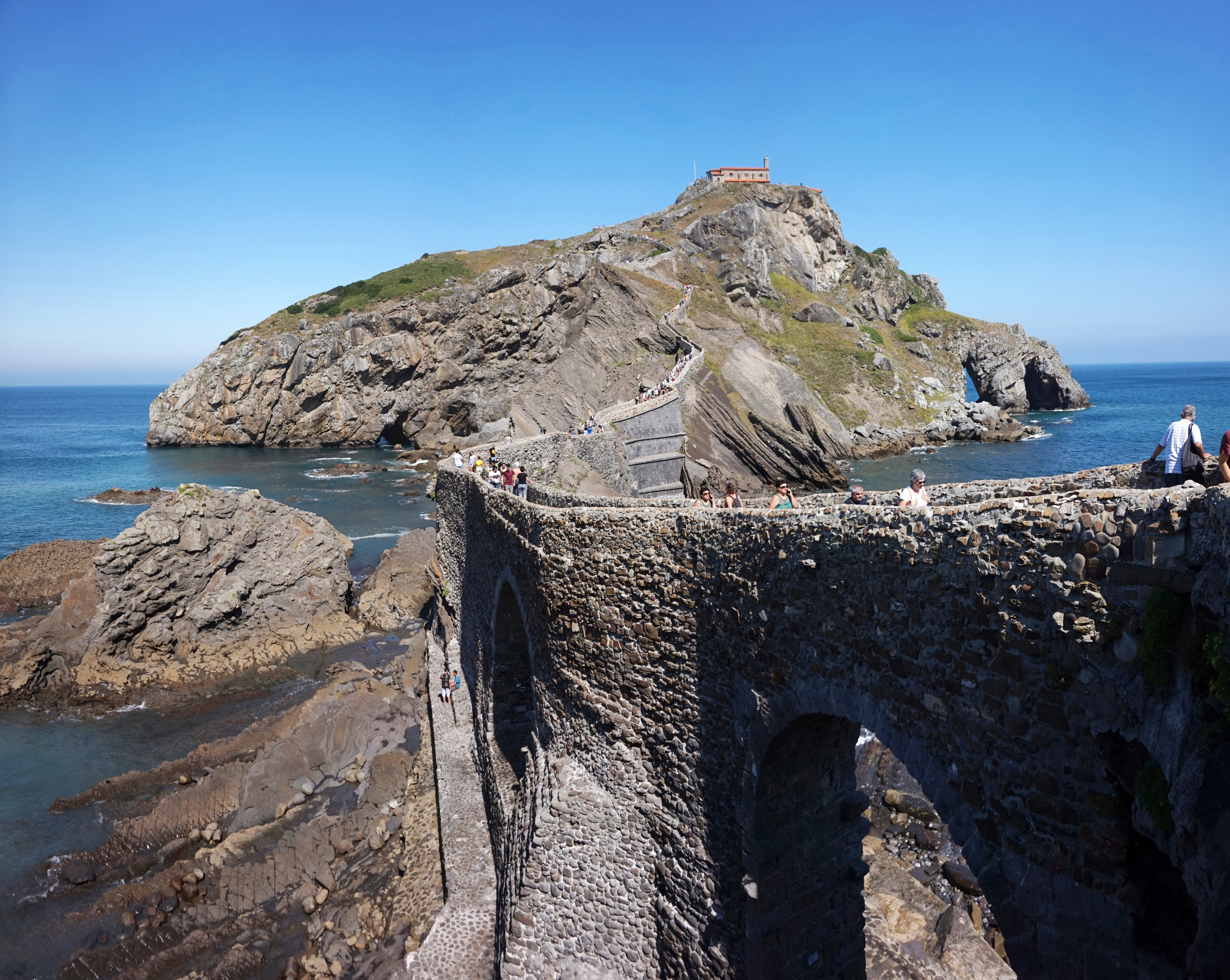 Gaztelugatxe in Bakio, Spain. This photograph was taken with a Sony Alpha a5000.